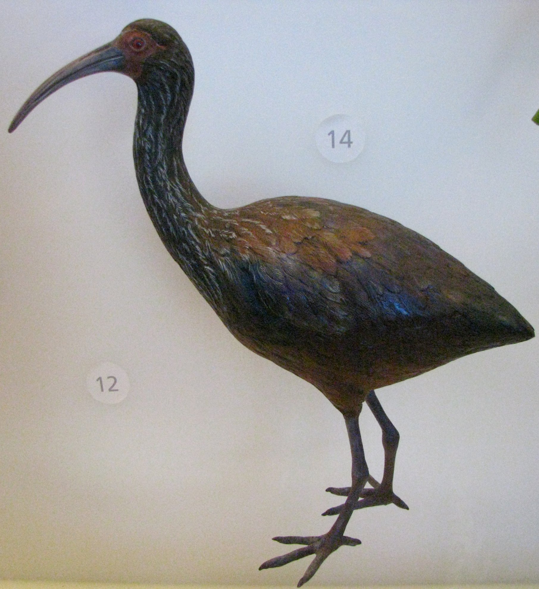 Artist model reconstruction Endemic to the Hawaiian Islands, there were once four species of Apteribis: Molokaʻi ibis (Apteribis glenos) Lānaʻi ibis (A. [unnamed]) Upland Maui ibis (A. brevis) Lowland Maui ibis (A. [unnamed]) The four Apteribis are all extinct. Bishop Museum, Honolulu, Hawaiʻi